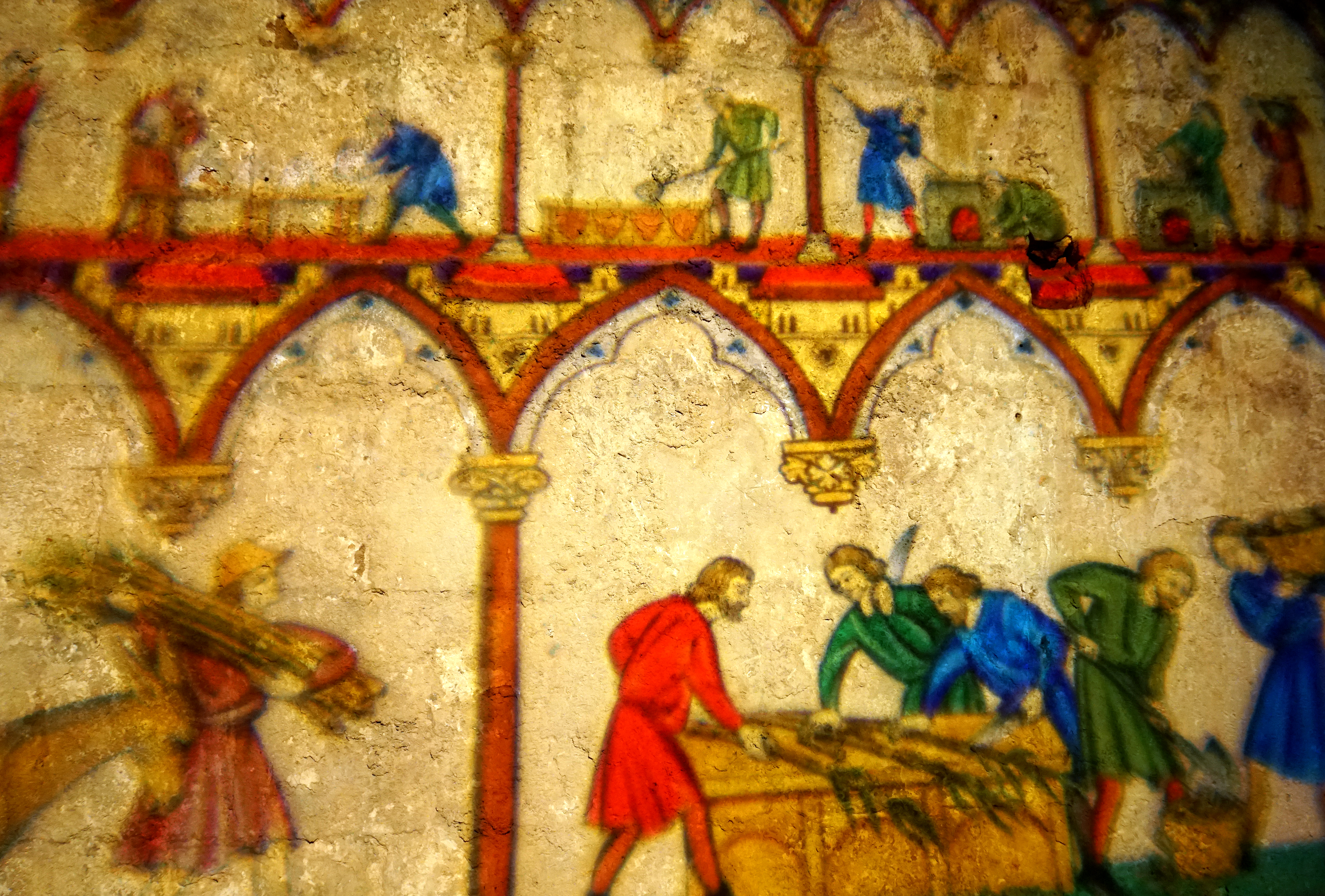 Projected scenes along the Southern Street, they are related to the advanced sugar industry the Crusaders found in the Holy Land. Production was improved and it was exported to Europe.